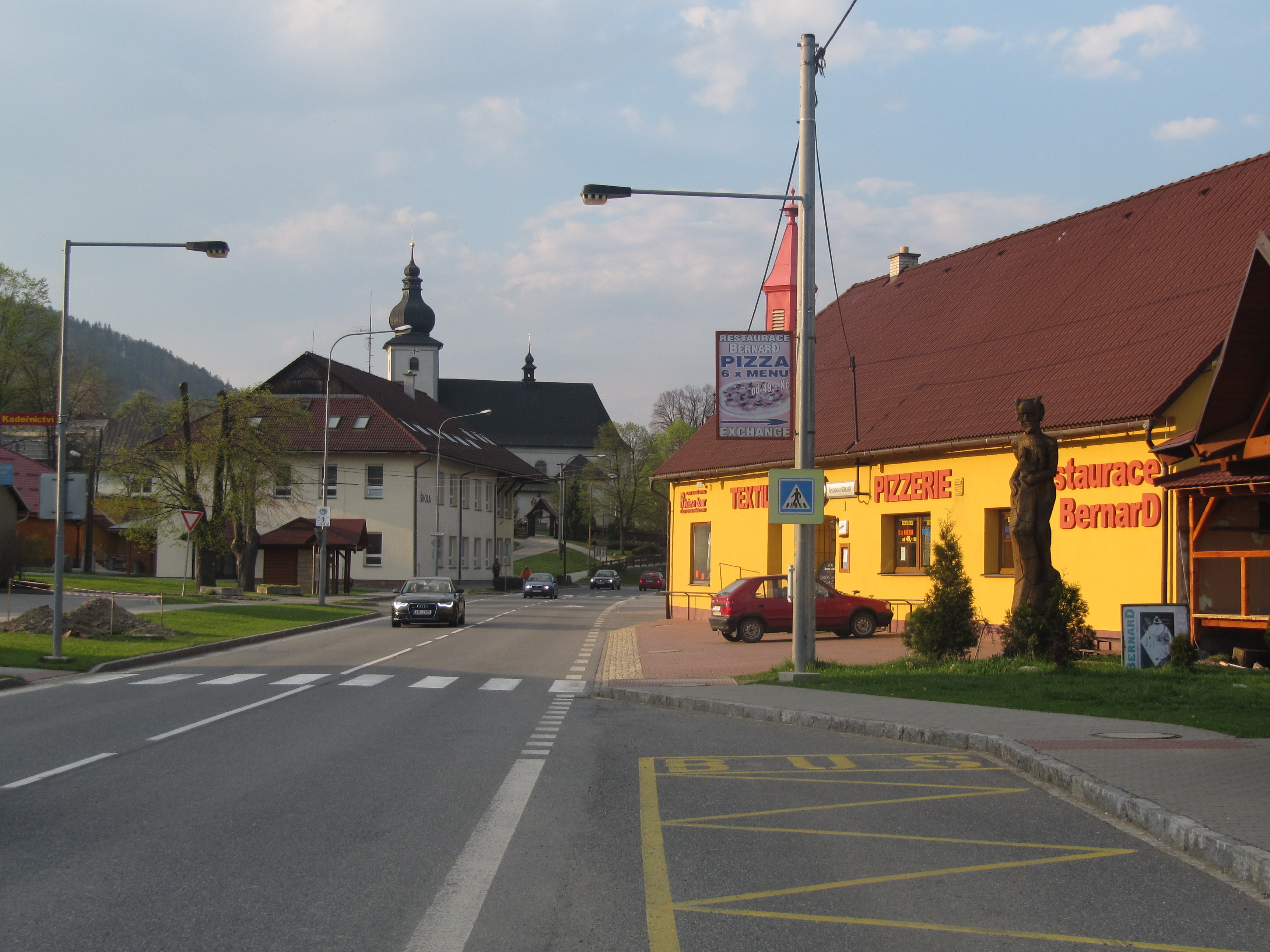 Lidečko in Vsetín District, Czech Republic. Center of the village, in the background baroque church of St. Catherine.